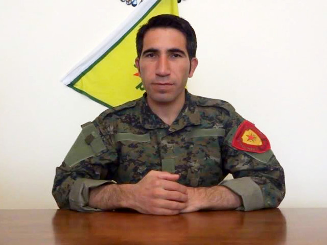 Polat Can, head of the information center of the Kurdish YPG.